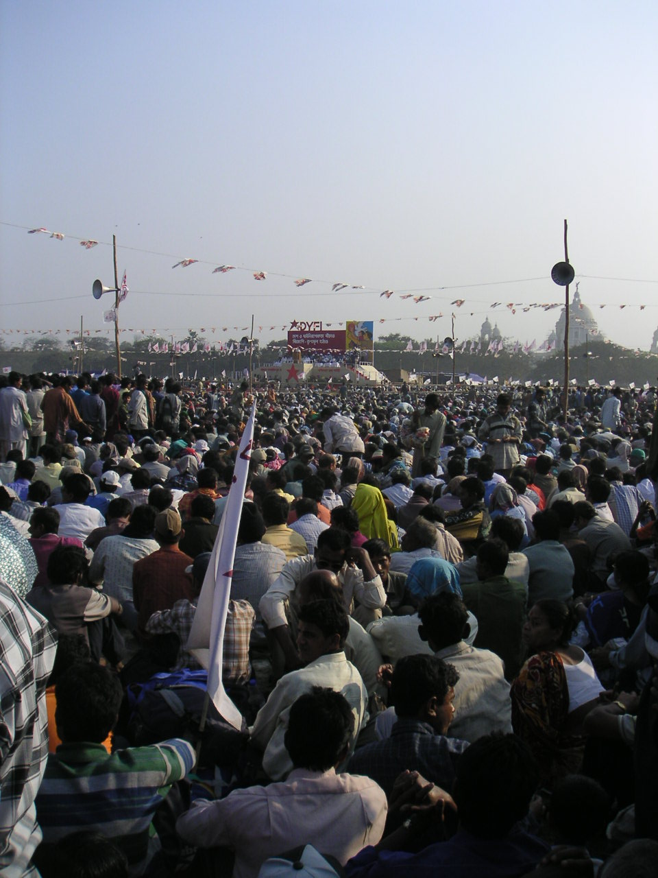 DYFI rally in Kolkata, India. Photo: Soman